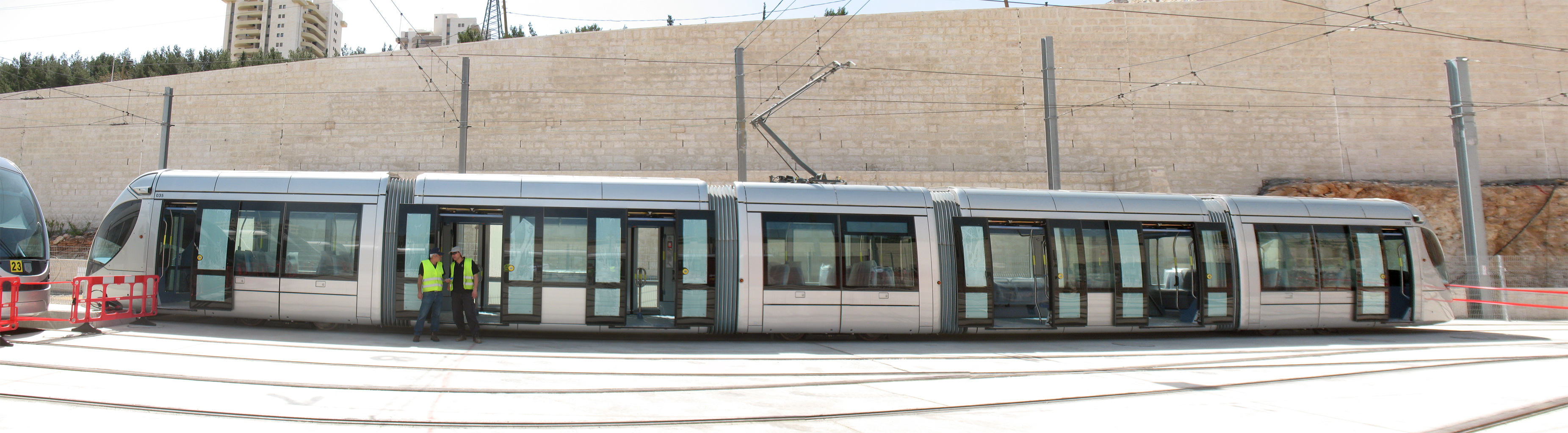 One of the trains to be used in the Jerusalem Light Rail. Product of Alstom.